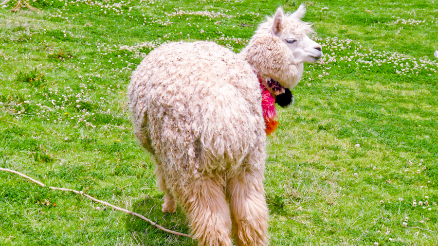 Lhama